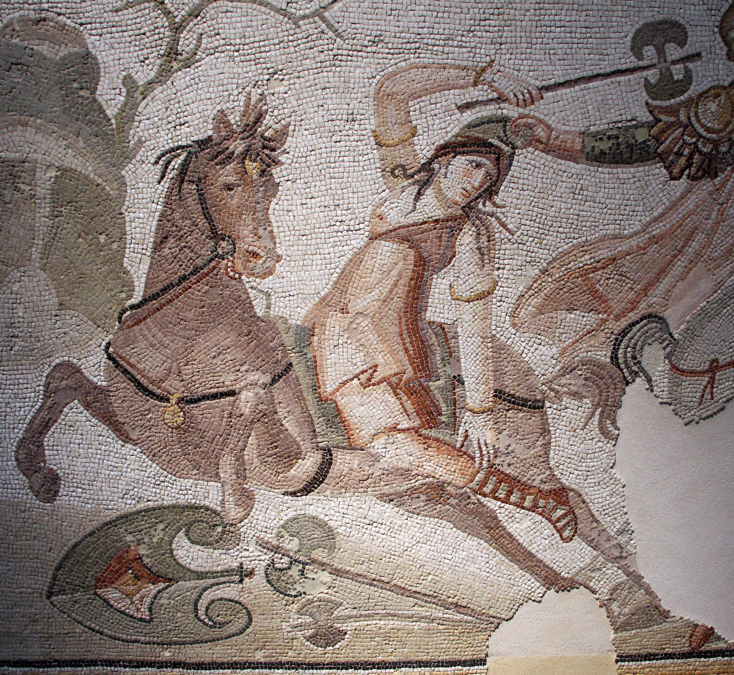 Partial image of Ancient Roman mosaic in the Louvre.